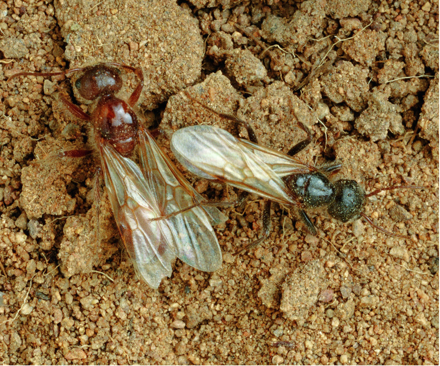 An Ant with Three Sexes? Two males from the harvester ant genus Pogonomyrmex, one from each genetic strain. In a recently discovered hybrid system, queens must mate with both types of males to produce reproductives and workers.